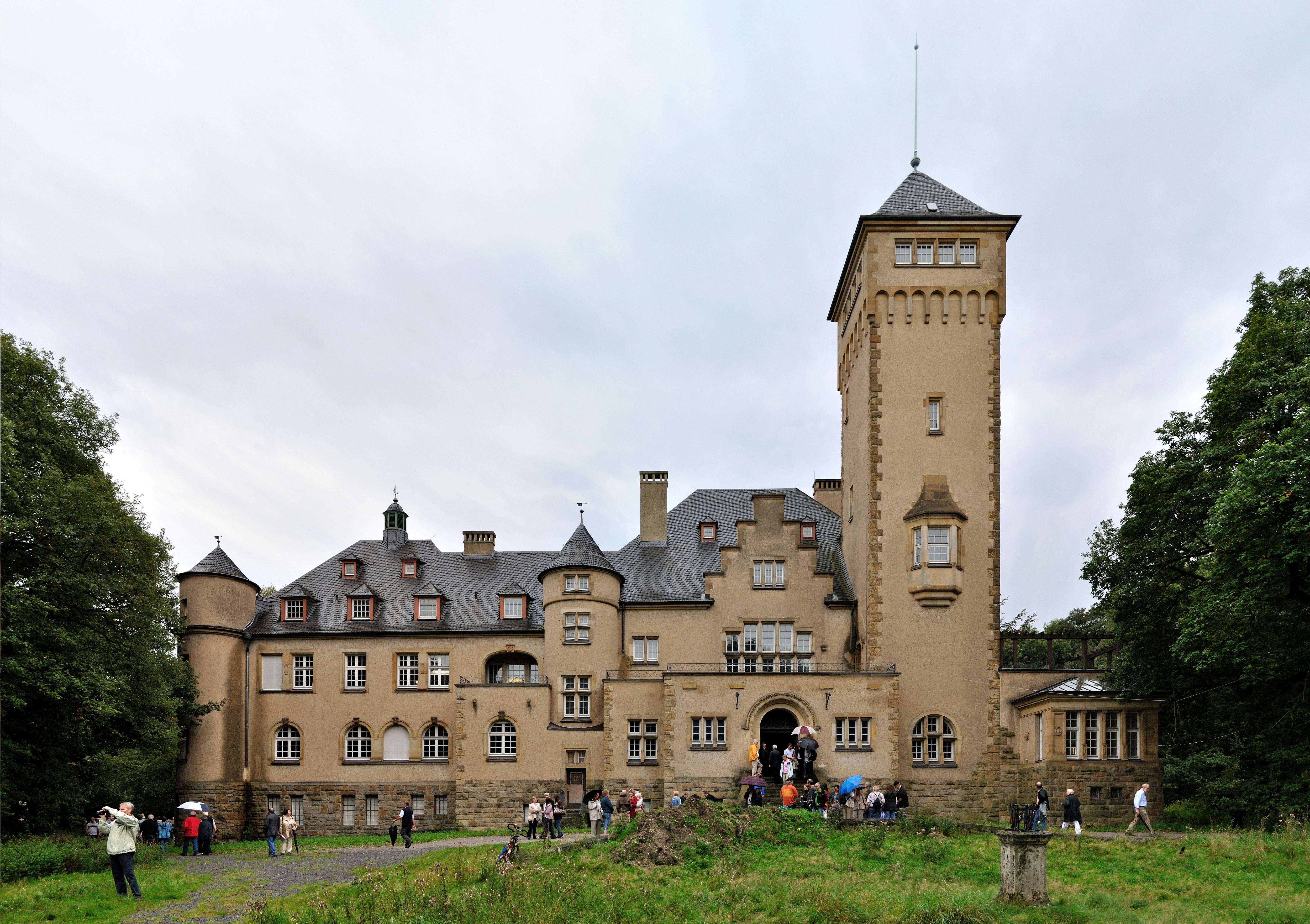 German Cultural Heritage Day 2011 – Duisburg (North Rhine-Westphalia, Germany) – entrepreneurial villa Haus Hartenfels – panoramic view of the representative west facade This image shows a heritage building in Germany, located in the North Rhine-Westphalian city Duisburg (no. 350). This photograph was taken with a Nikon D3000 This image was created with Hugin.